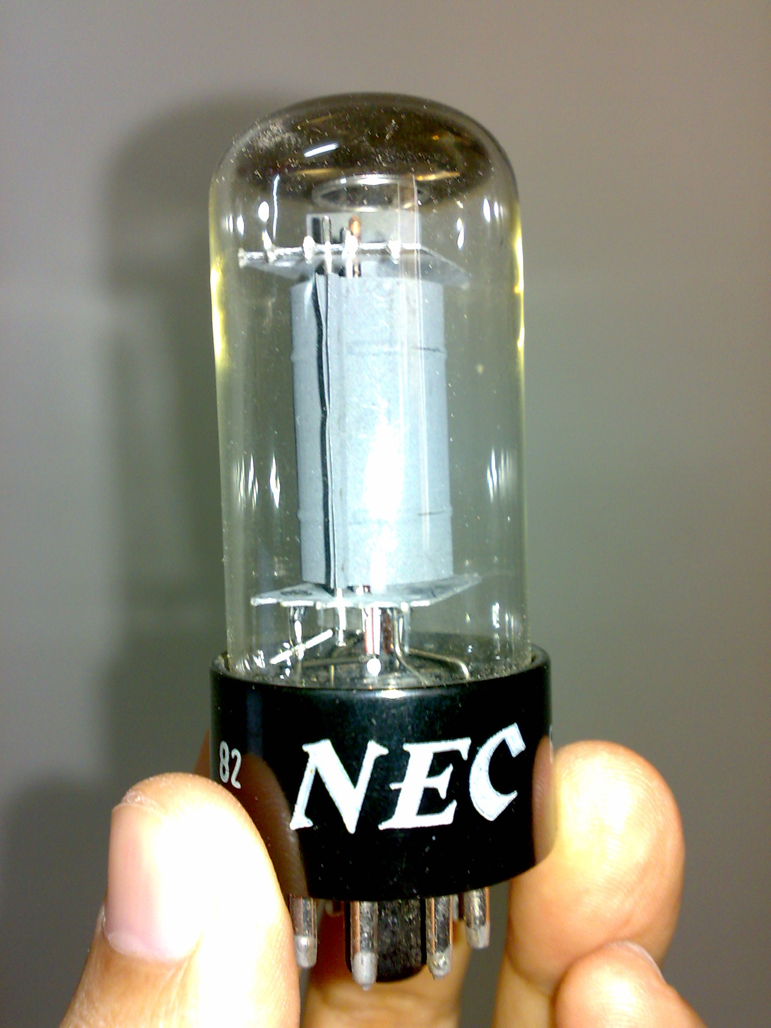 NEC vacuum tube from an old ca.1960's radio